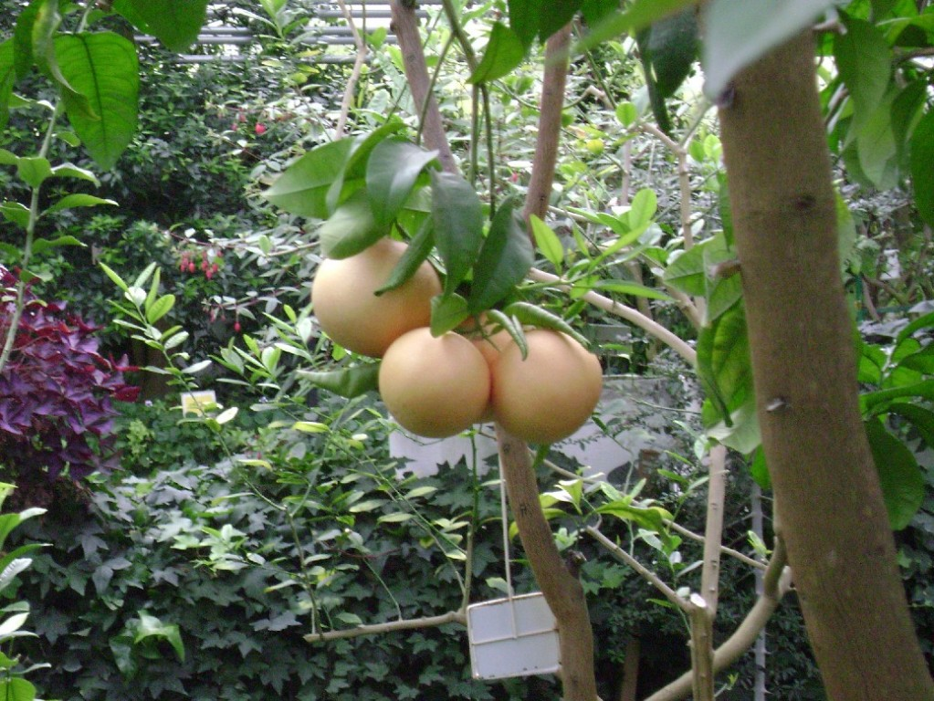 Poland. Warsaw. Powsin. Botanical Garden, greenhouses